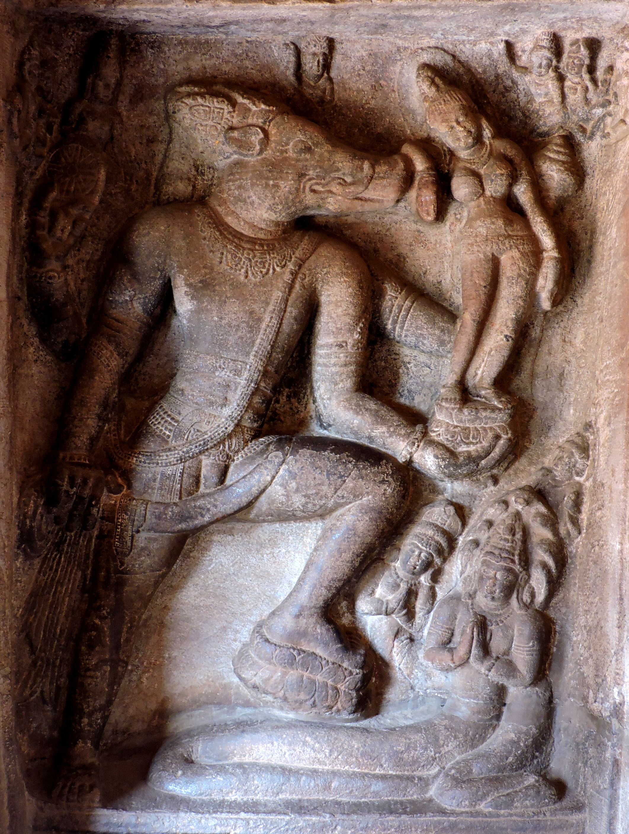 Varaha (boar) avatar of Vishnu saving earth from Hiranyaksha